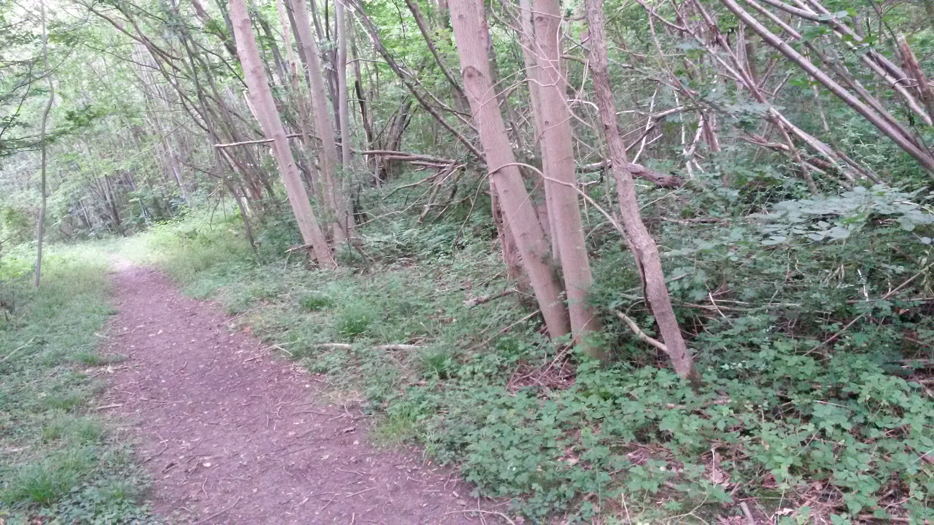 Path in Skellingthorpe Old Wood that follows an old hunting bank.